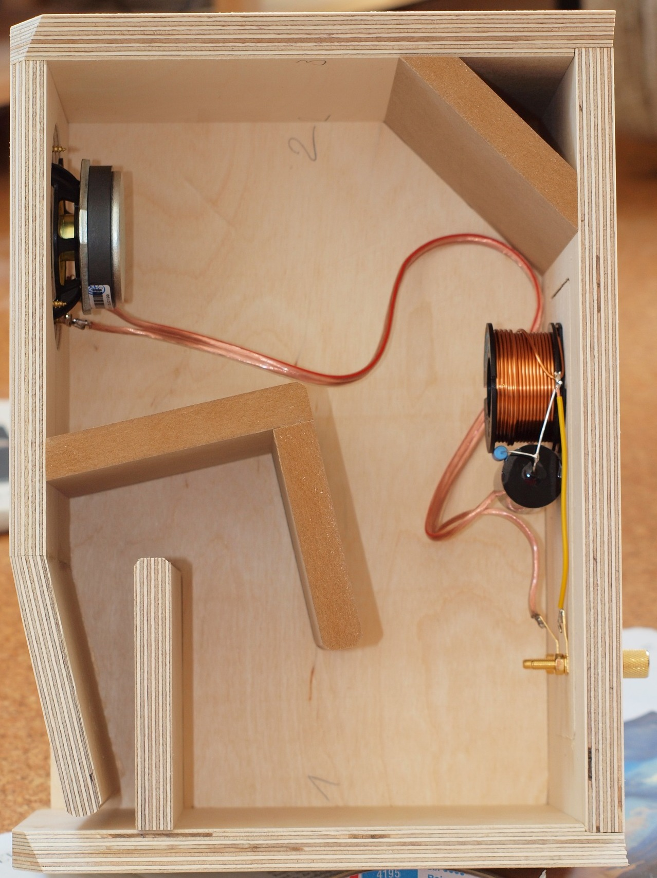 Inside construction of a "Pico Lino 2" type transmission line speaker